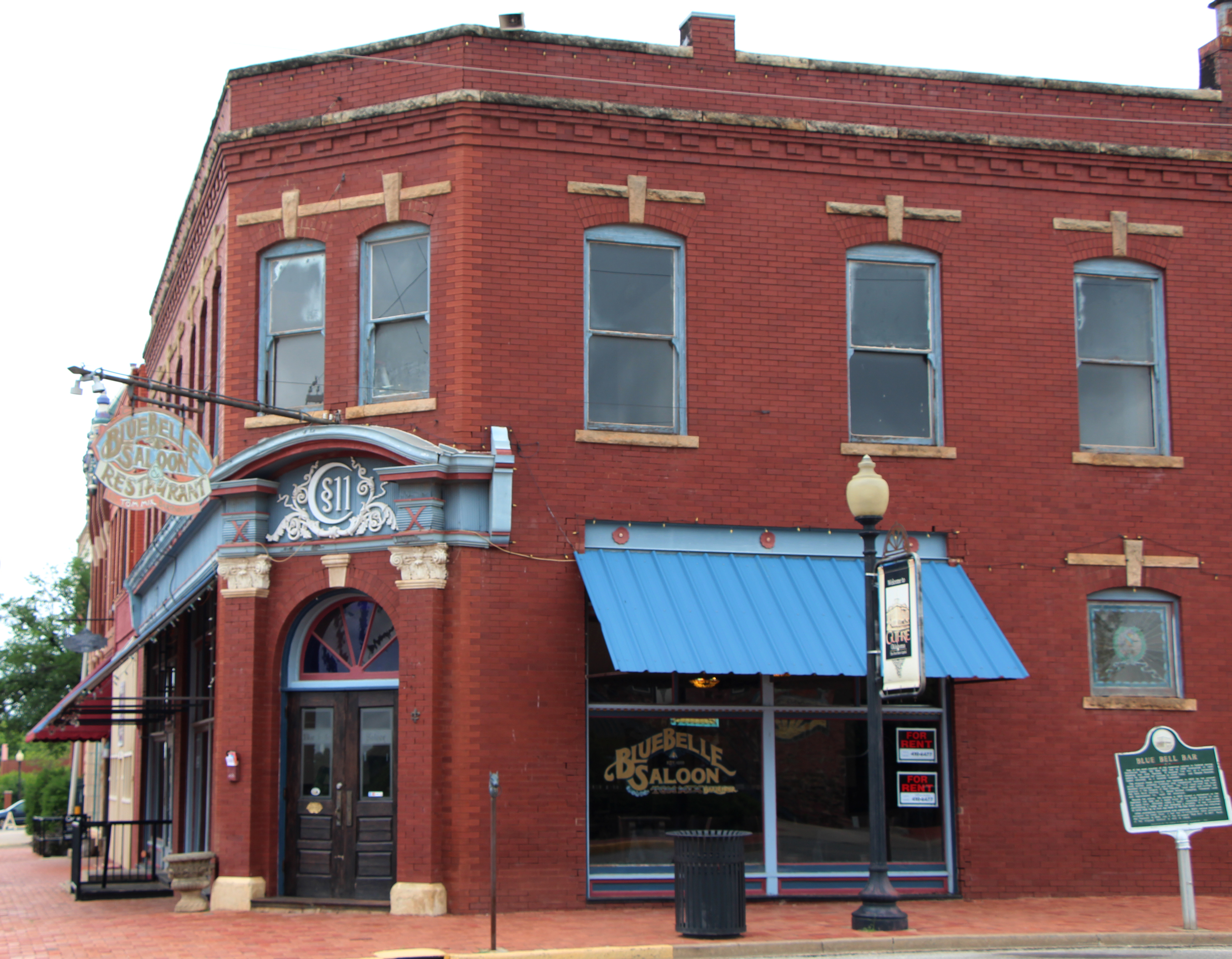 Blue Bell Bar, Guthrie, Oklahoma